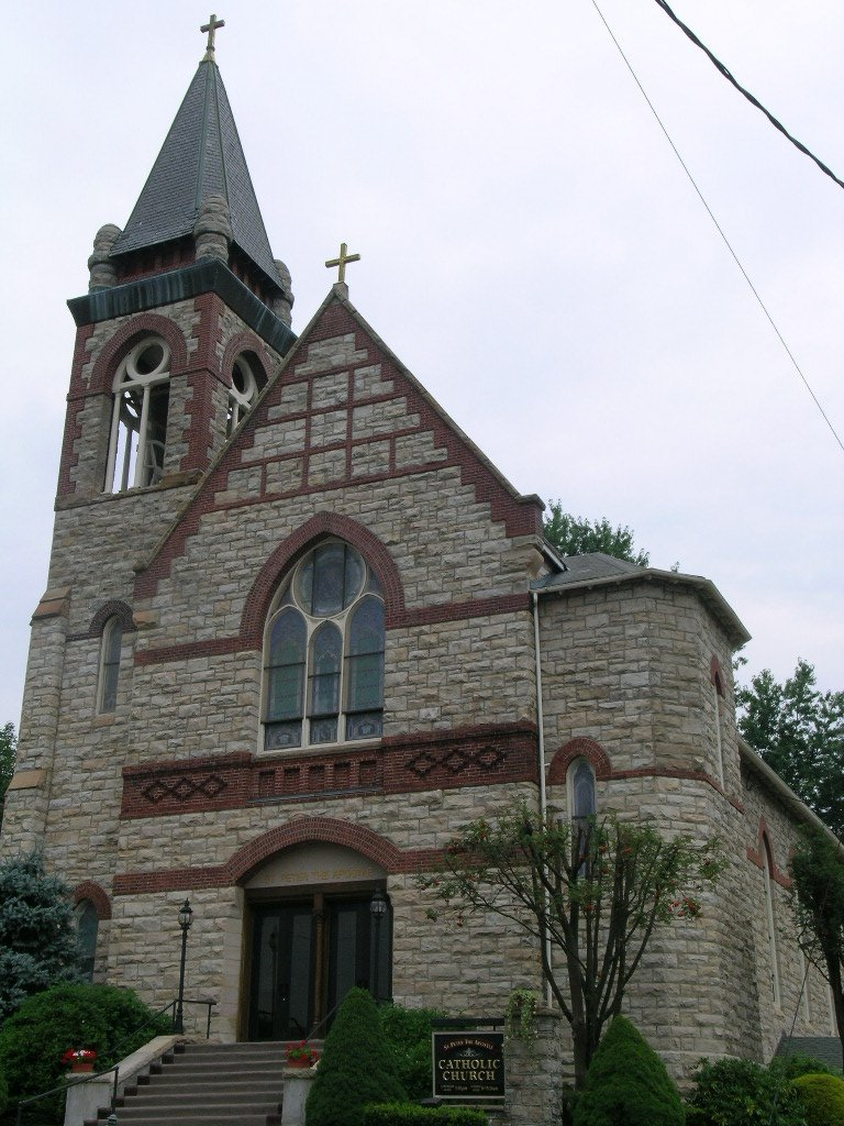 The front of St. Peter the Apostle Catholic Church in Oakland, MD.